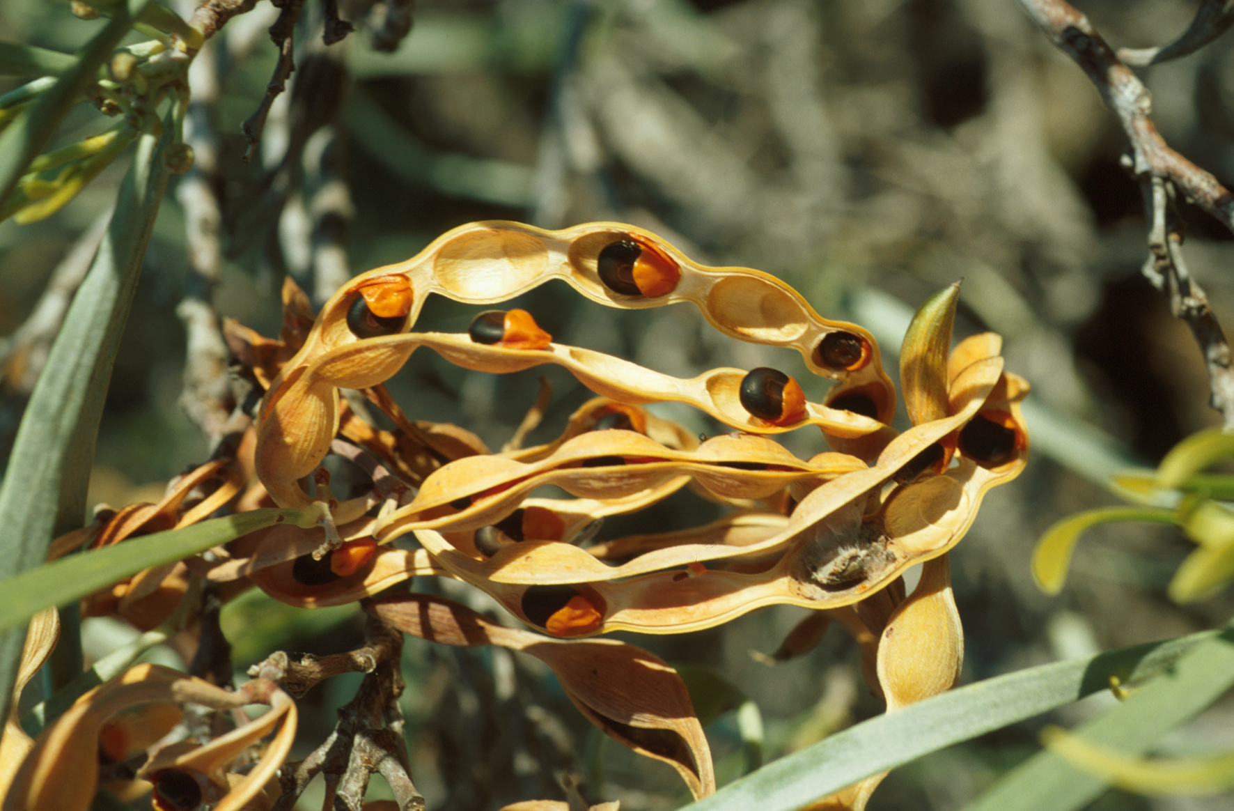 Acacia coriacea seed pods. Photo credit: Maurice MacDonald